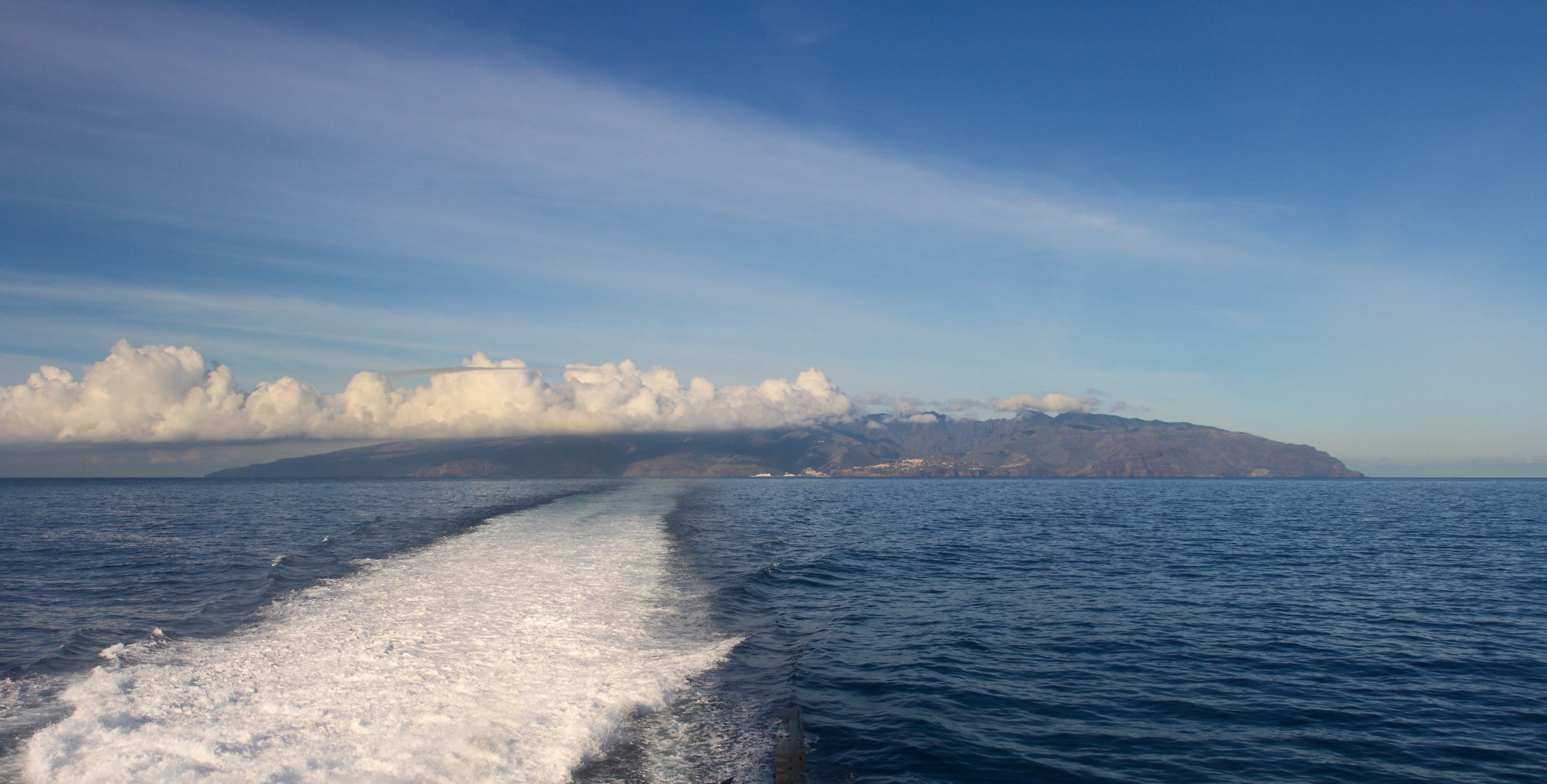 East Coast of La Gomera in the middle of the sea crossing San Sebastian-Los Cristianos.